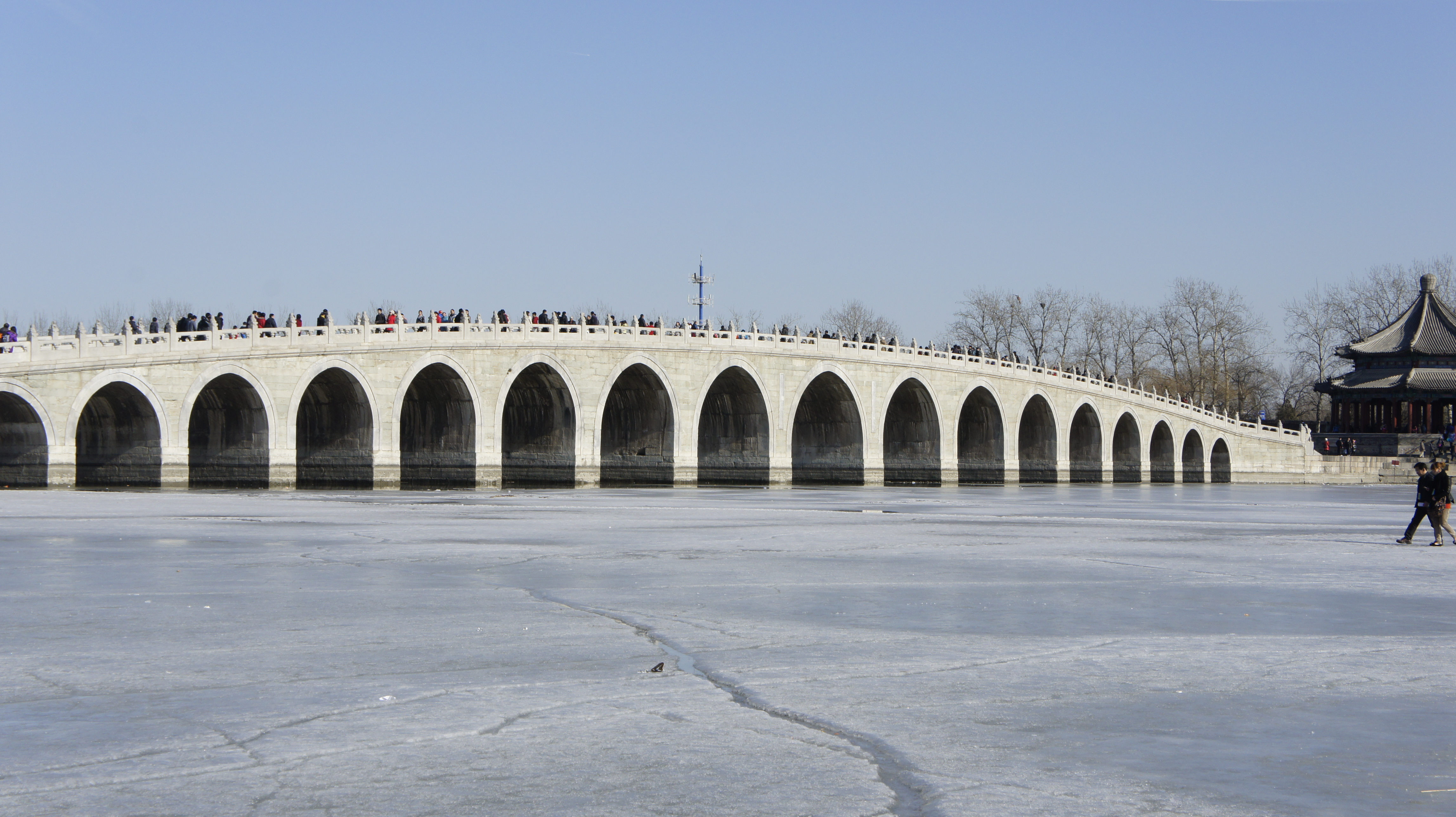 The Seventeen-Arch Bridge (十七孔桥) of the Summer Palace (颐和园).